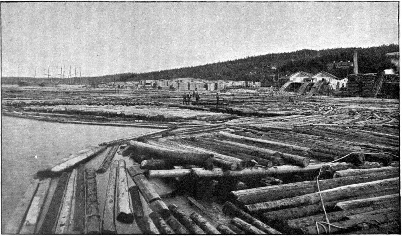 "Sågverk på Alnön." (Karlsvik sawmill) Photo by Sven Nilsson. Illustration from Nils Holgerssons underbara resa genom Sverige by Selma Lagerlöf.